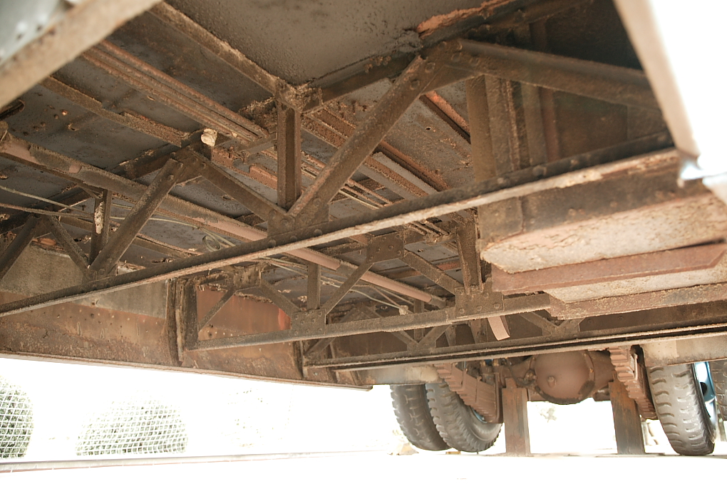 Under-floor of 1954 Fuji Heavy Industry Fuji-go in Subaru Customise Kobo, of Isesaki-City Gumma, Japan.